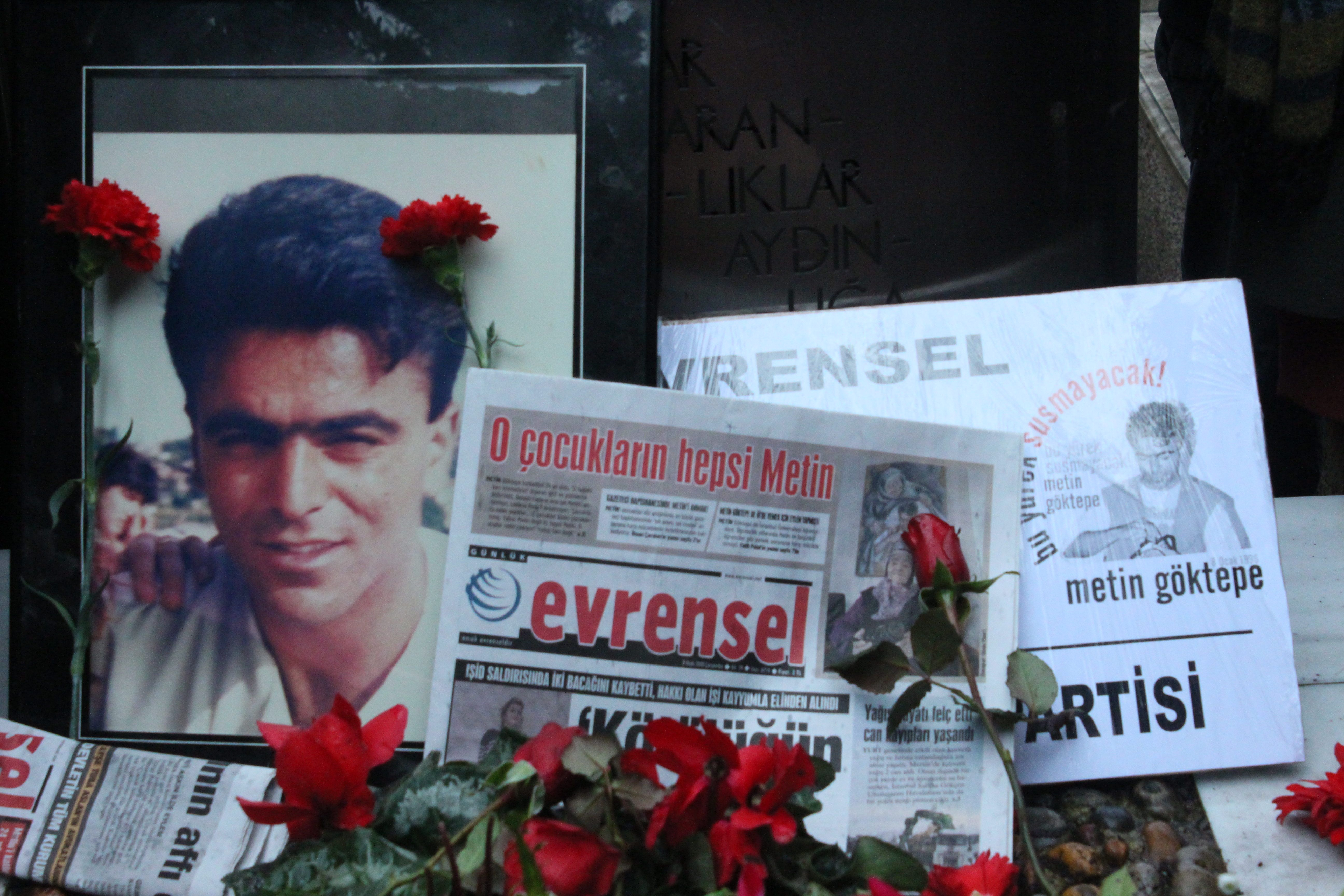 Metin Göktepe'nin mezarı, 2020'deki anma Fotoğraf: Eylem Nazlıer/Evrensel Gazetesi